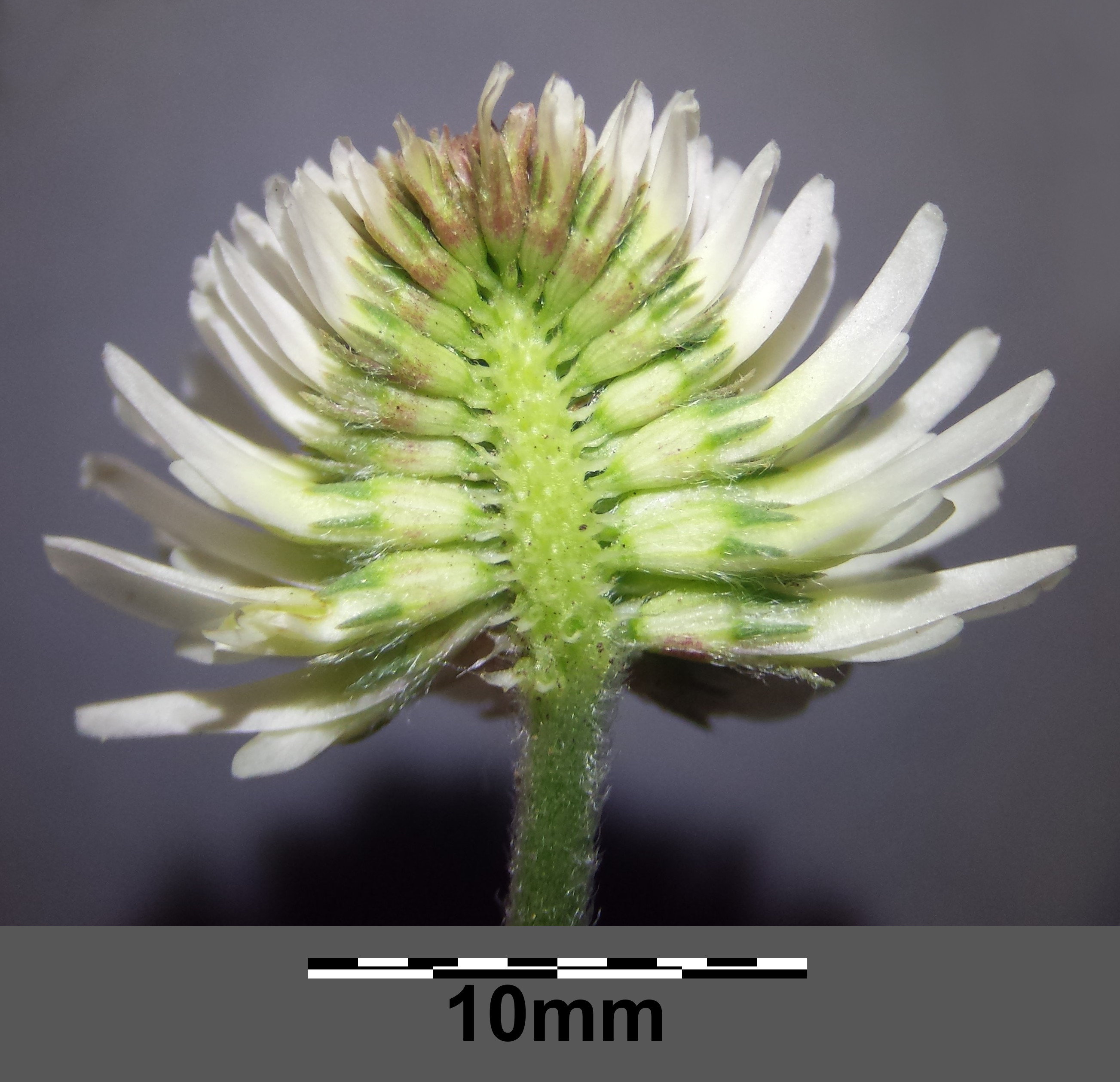 Inflorescence, front flowers removed Taxonym: Trifolium montanum (subsp. montanum) ss Fischer et al. EfÖLS 2008 ISBN 978-3-85474-187-9 Location: Kogelberg, Straning-Grafenberg, district Horn, Lower Austria - ca. 300 m a.s.l. Habitat: dry grassland